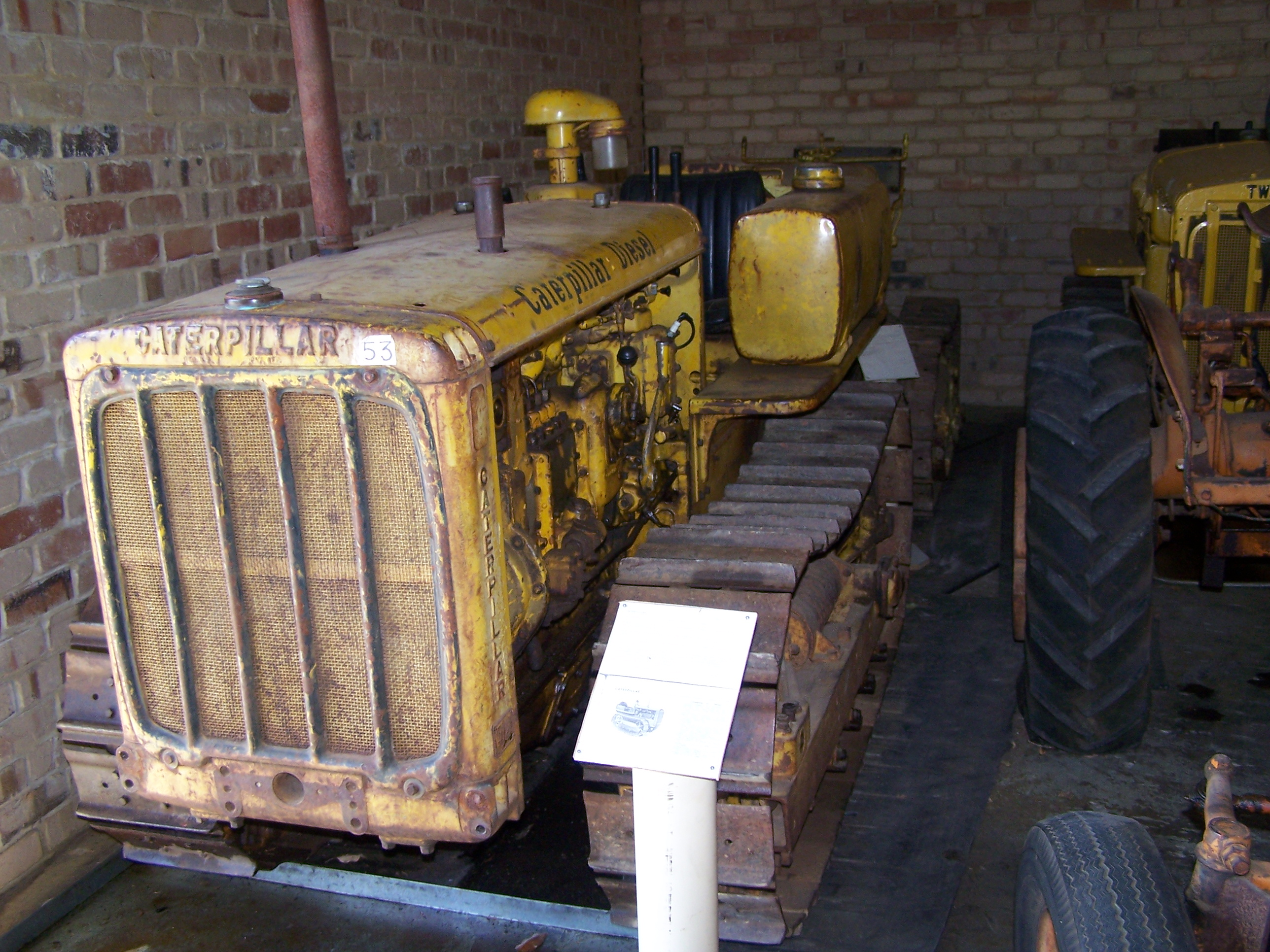 Catapiller D2 at the Serpentine Vintage Tractor Museum